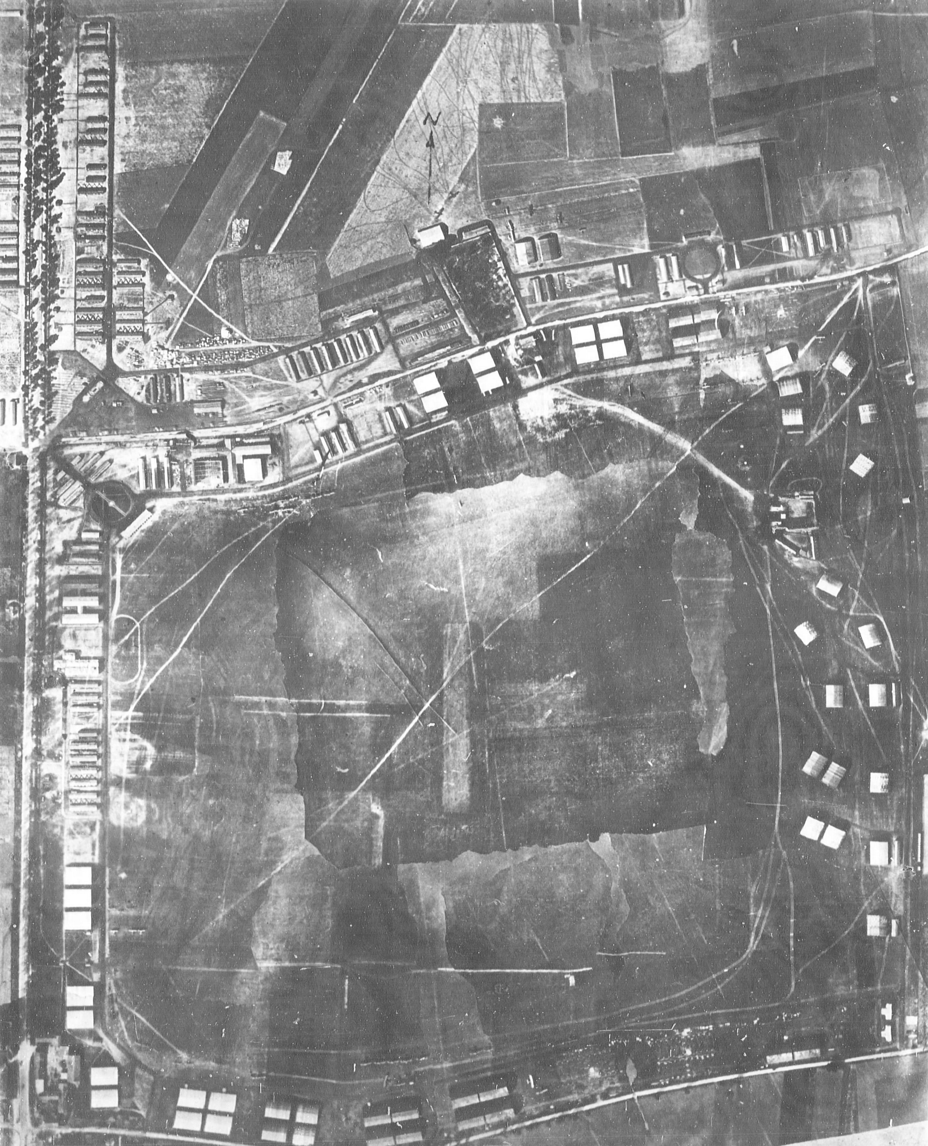 Airphoto of American Air Service Acceptance Park No. 1, Orly, France, 1918